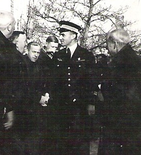 Henry de Rancourt de Mimerand (1910-1992), French general, Compagnon de la Libération. Photo in 1944: colonel, just after the Libération of France.